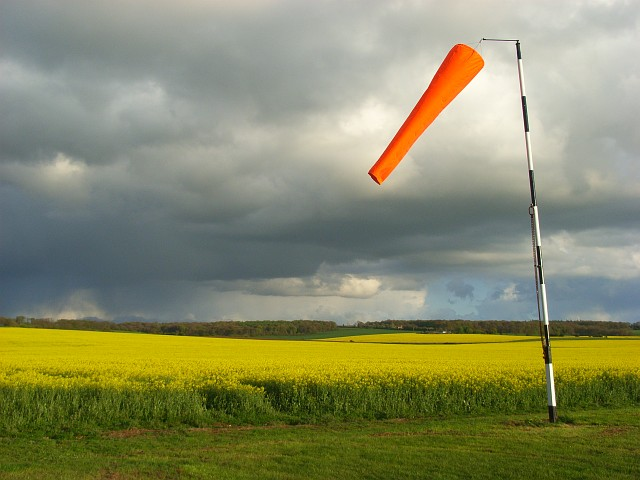 Oil-seed rape and windsock, Woodcote